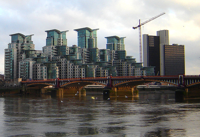 Vauxhall Bridge, London, with St George's Wharf in background. 29 October 2005. Photographer: Fin Fahey